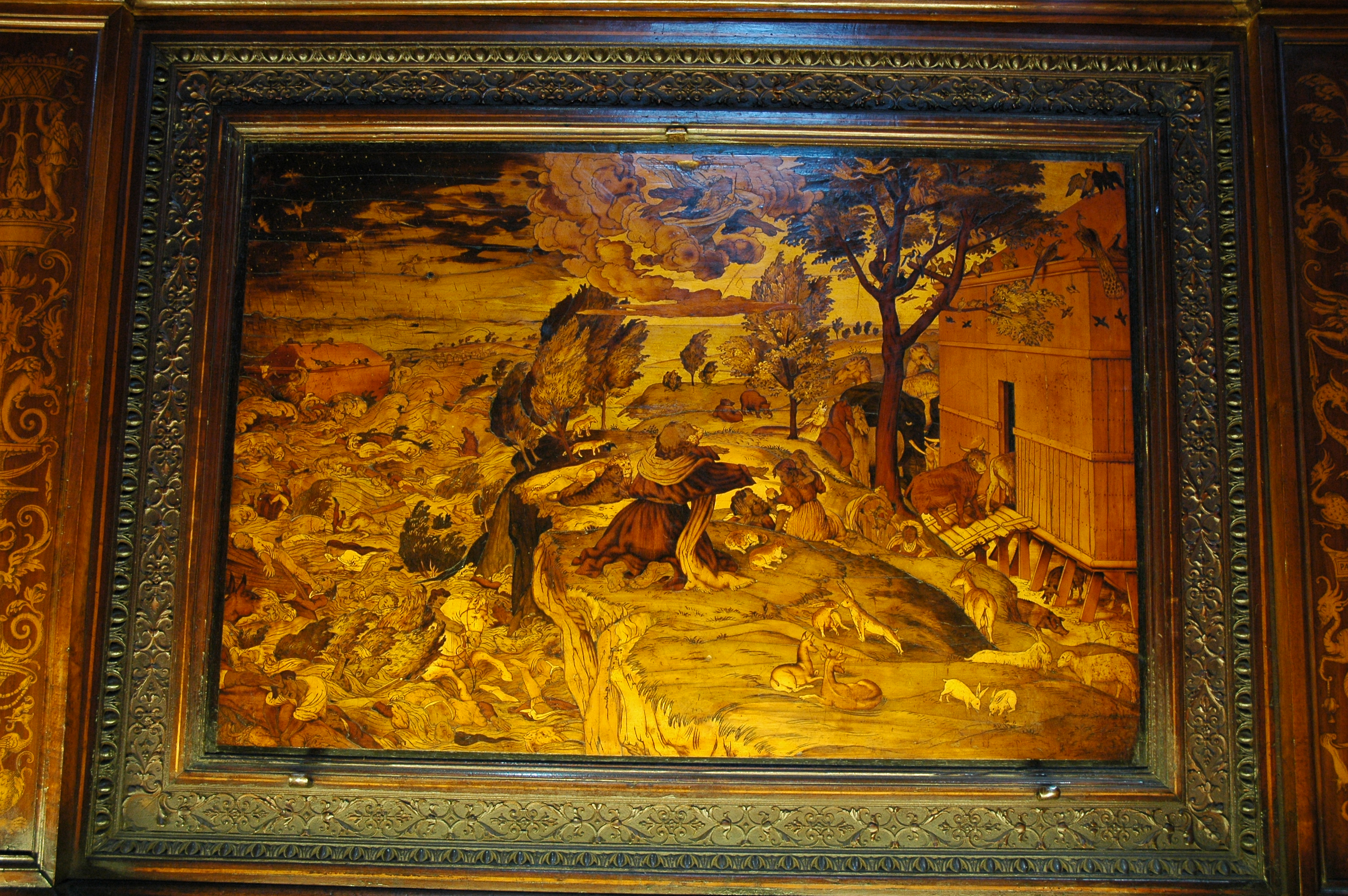 Country : Italy Region : Lombardy Province : Bergamo (BG)